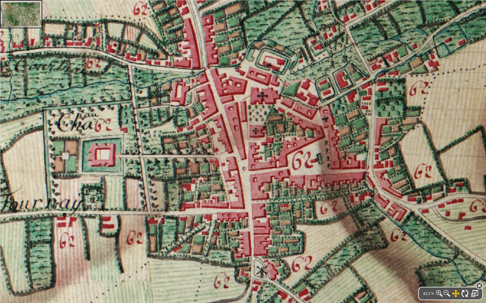 Ronse,_Belgium,_Ferraris.jpg